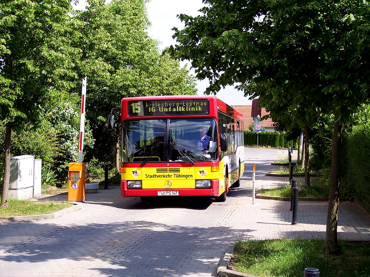 A Mercedes-Benz O 405 N2 of Stadtverkehr Tübingen in the Herrlesberg area of Tübingen. The road is bus-only and protected by a barrier (seen on the left) that opens automatically on the approach of a bus.